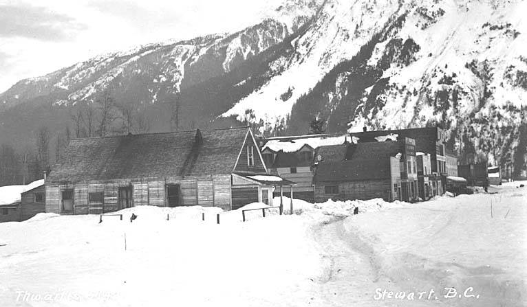 Caption on image: Stewart, B.C . PH Coll 247.671 Subjects (LCSH): Stewart (B.C.); Cities and towns--British Columbia